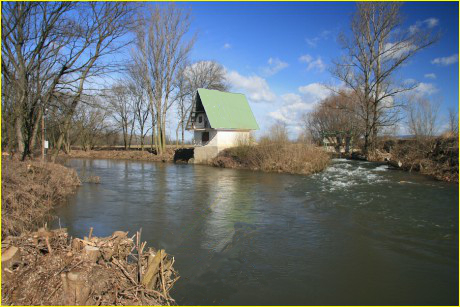 Mouth of Oskava river